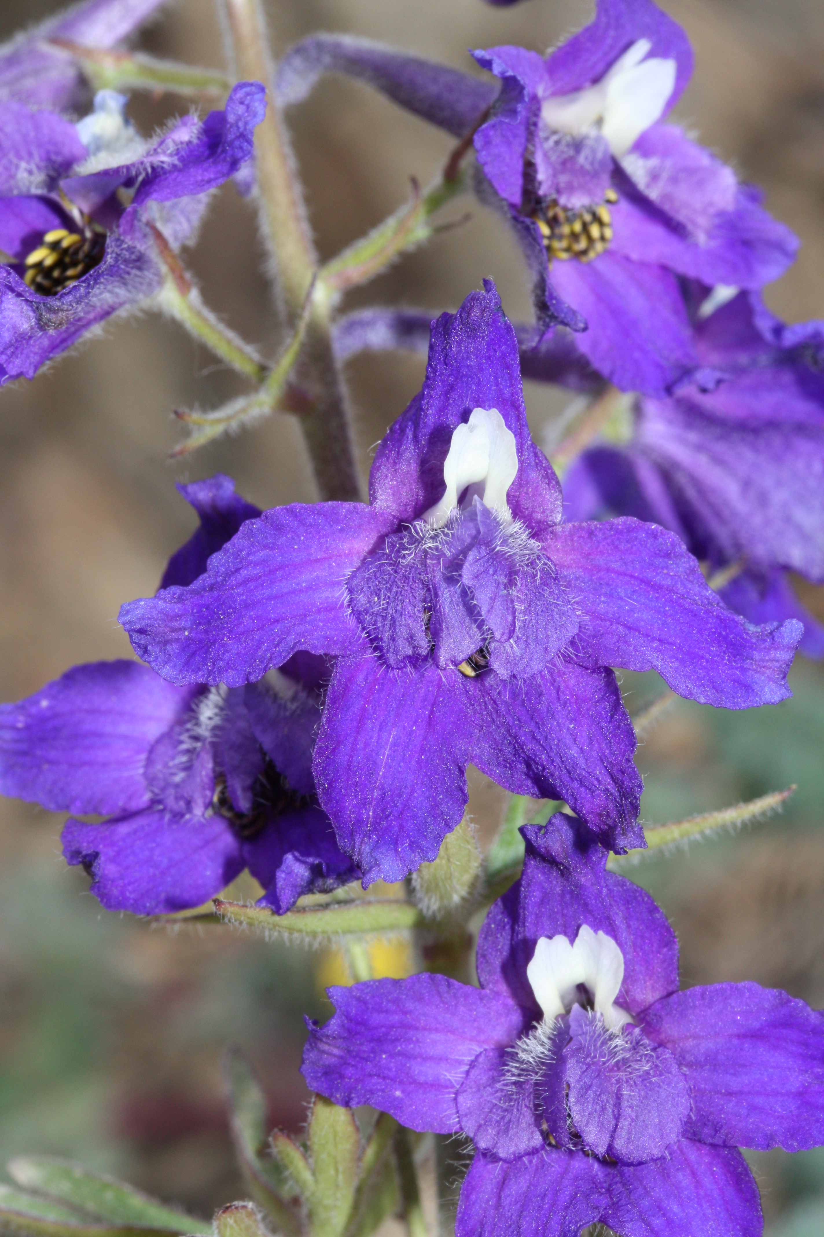 Menzies' Larkspur, Coastal Larkspur